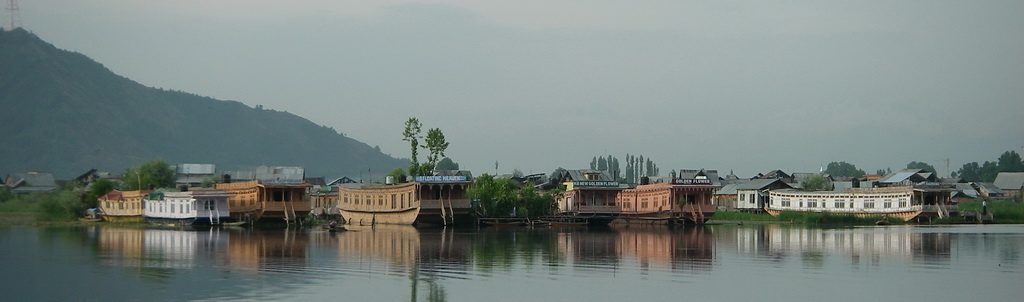 Houseboats (Nagin Lake, Srinagar, Jammu-Kashmir, India)